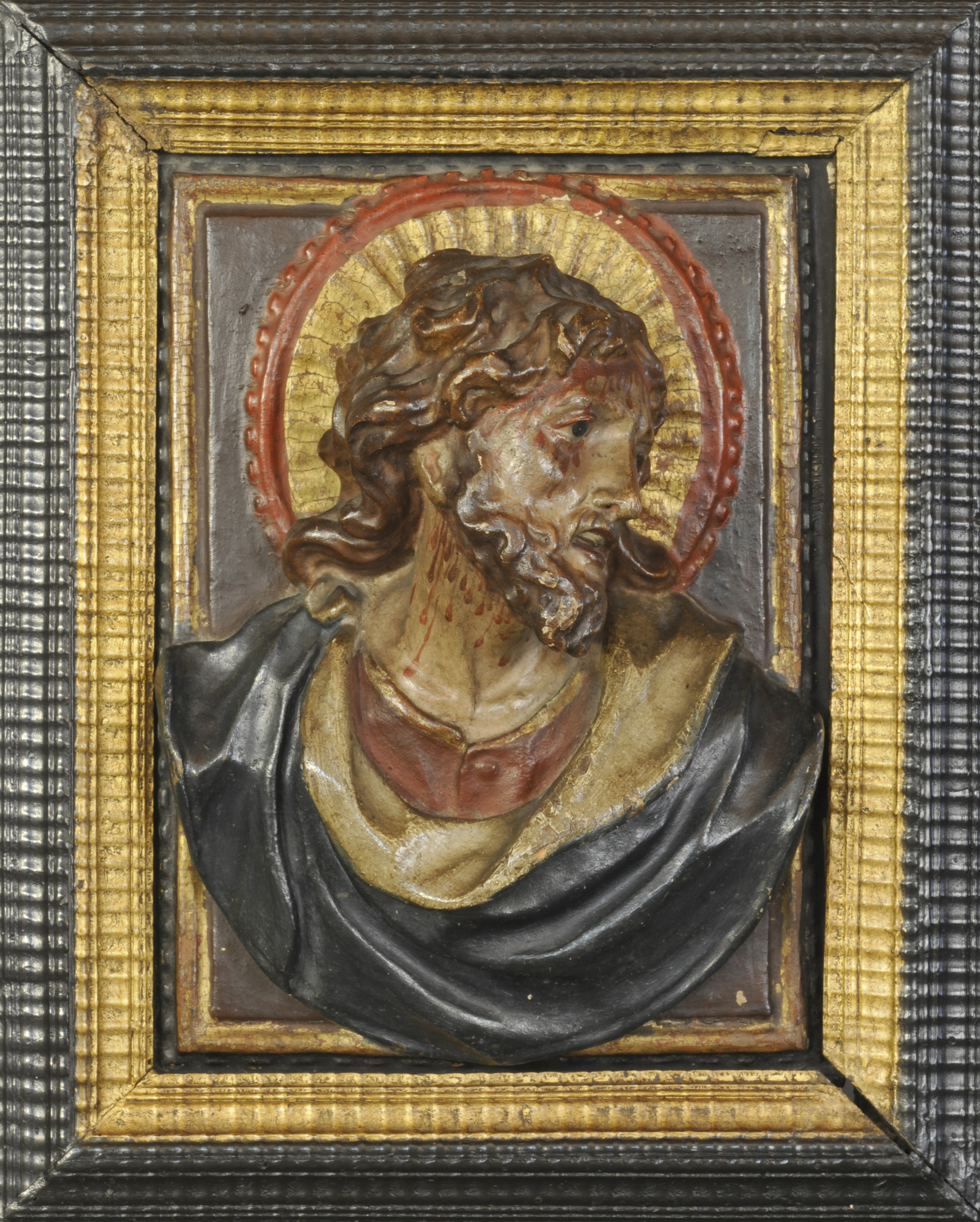 Jesus Christ, polychromed and gilded woodcarved relief by Martin Vinazer (* 1674 in St. Ulrich in Gröden; † 1744) signed MVF (MV Fecit)